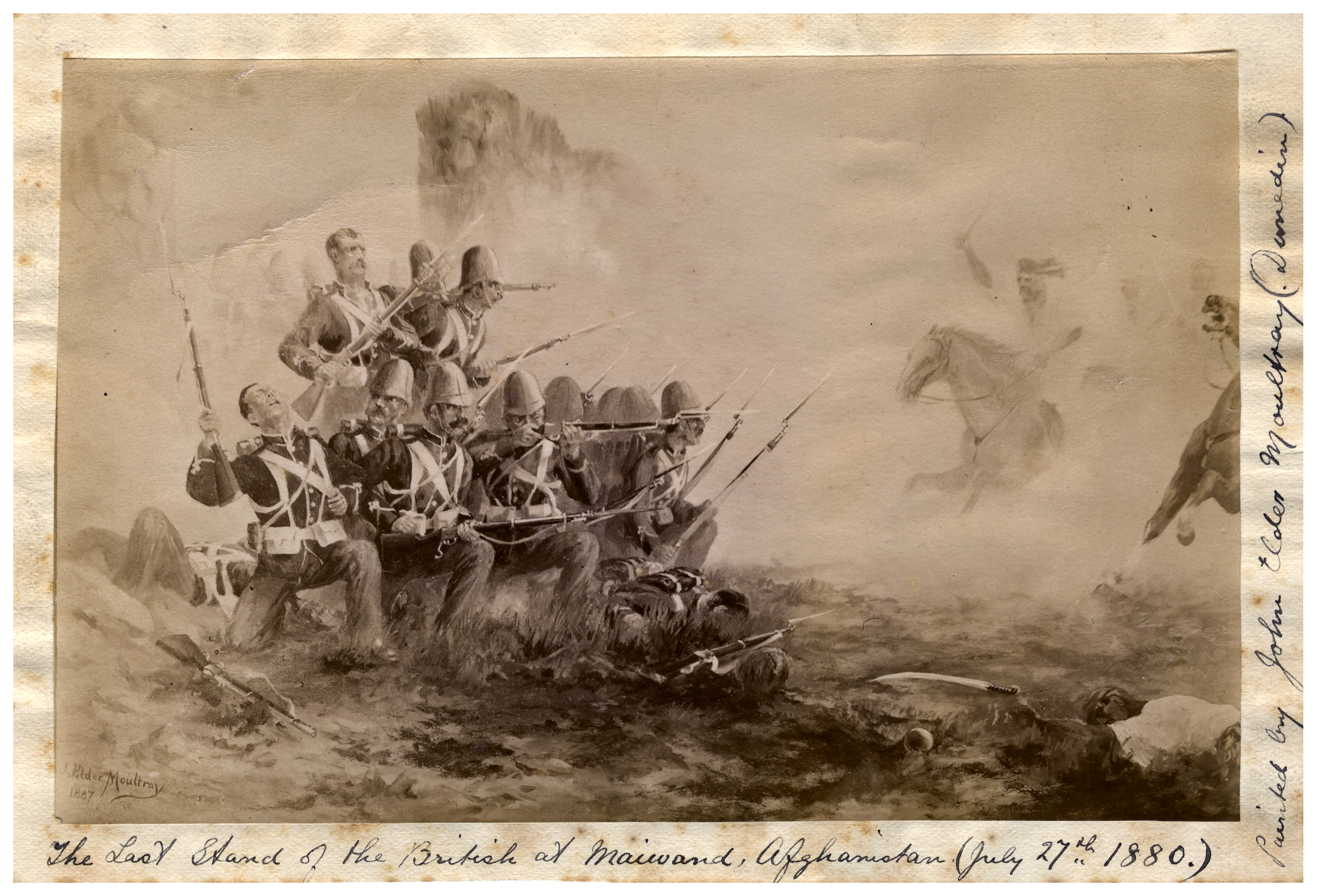 On 27 July 1880 during the Second Anglo-Afghan War, two brigades of British and Indian troops were heavily defeated by Afghan forces under the leadership of Ayub Khan. Known as the Battle of Maiwand, it is often remembered for the role of a woman named Malalai, who, seeing the Afghani flag bearer shot down, rushed forward and called on the Afghan forces to fight to the death. She herself was killed during the battle. This photograph, published for the first time, is of a painting by New Zealand artist John Elder Moultray. A painter of landscapes, military history and journalism, Moultray was born in Scotland and emigrated to Dunedin in 1883. He later accompanied the 1st Contingent to South Africa in the South African War as newspaper correspondent, and various newspapers published his sketches and letters. This painting, The Last Stand of the British at Maiwand, Afghanistan, 27th July, 1880 was exhibited at the Melbourne Centennial Exhibition in 1888, and was noted for its “expression, action, texture, and arrangement, with attention to accoutrements of the period.” It depicts the last stand of a group of British soldiers, who are said to have allowed other troops escape through their stand: Moultray sent in this image to the Copyright Office on 27 August 1887, to be registered under the Fine Arts Copyright Act. He was living in Dunedin at the time. More information on J. Elder Moultray can be found in this thesis by Marilyn Park: Archives Reference: PC4 Box 1/ 1887/38 For updates on our On This Day series and news from Archives New Zealand, follow us on Twitter: Material from Archives New Zealand